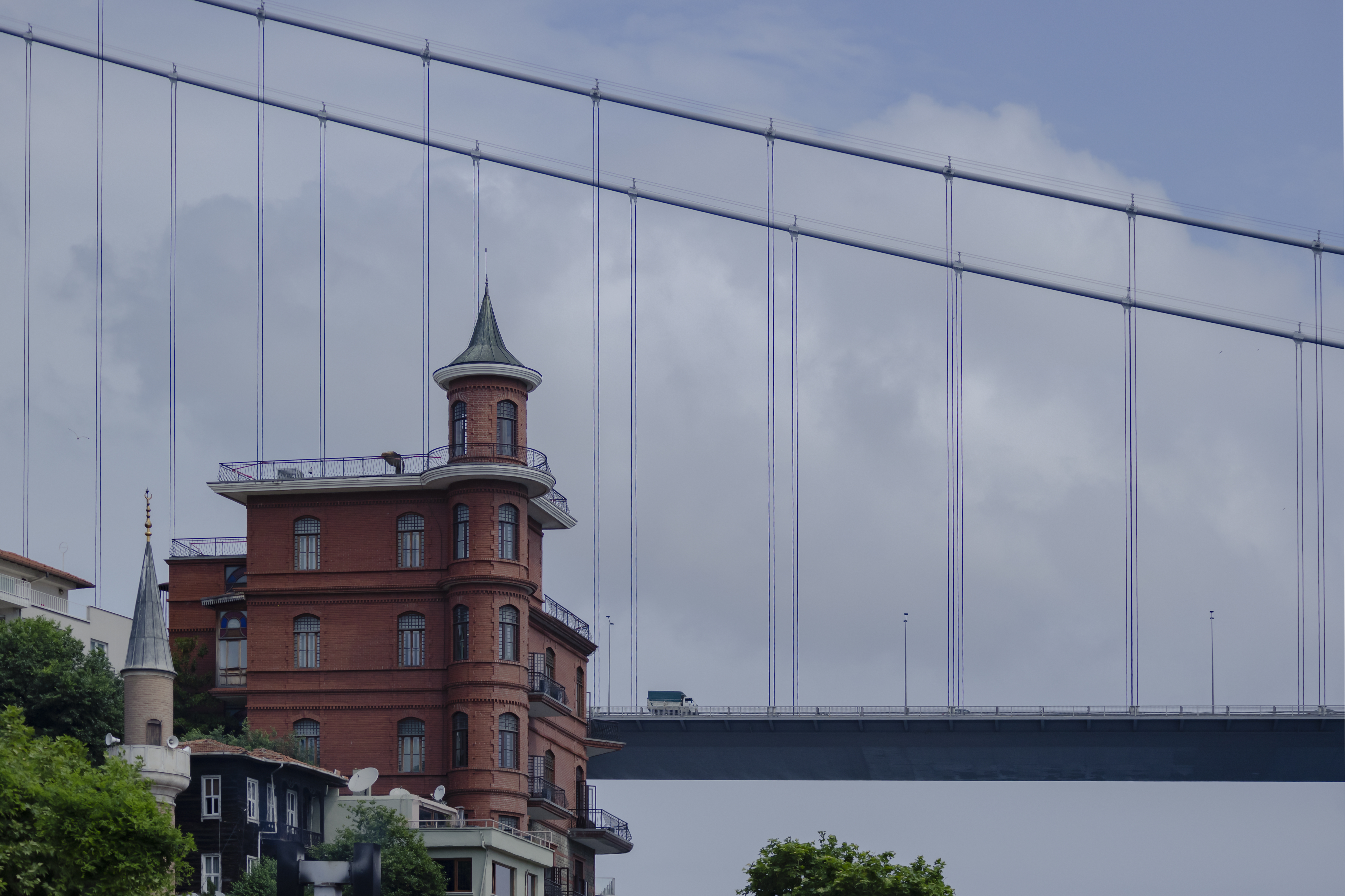 A building, or edifice, is a structure with a roof and walls standing more or less permanently in one place, such as a house or factory.